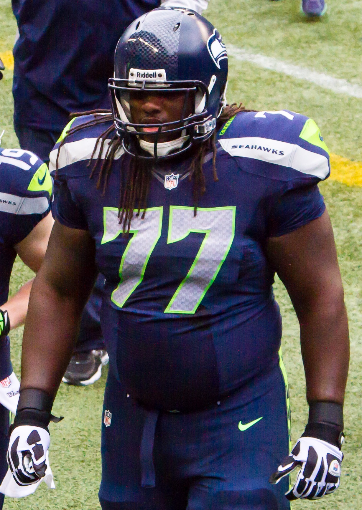 James Carpenter, Seahawks vs Rams 12.29.13